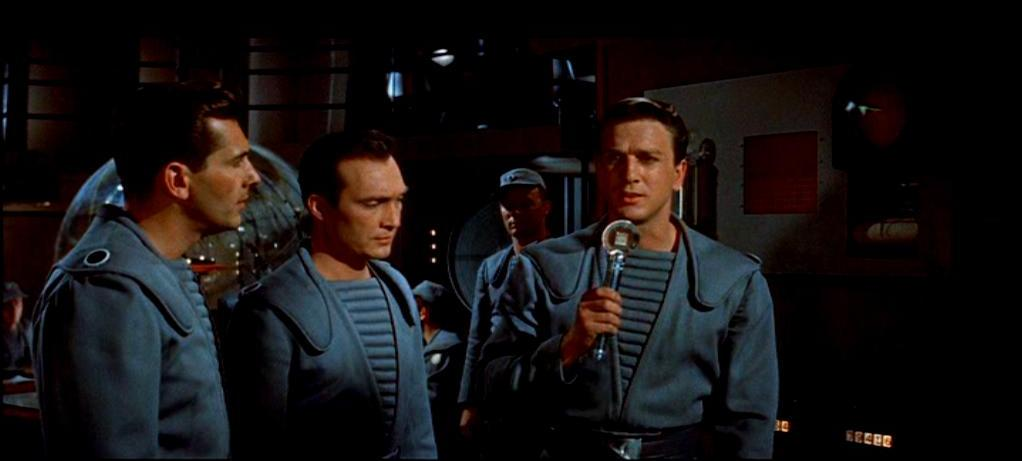 Screenshot of Leslie Nielsen from the trailer for the film Forbidden Planet.